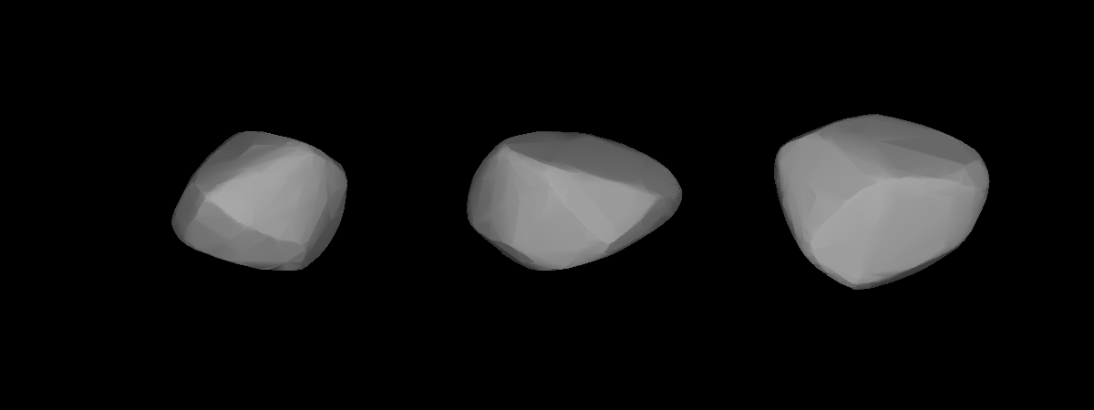 A three-dimensional model of 543 Charlotte that was computed using light curve inversion techniques.